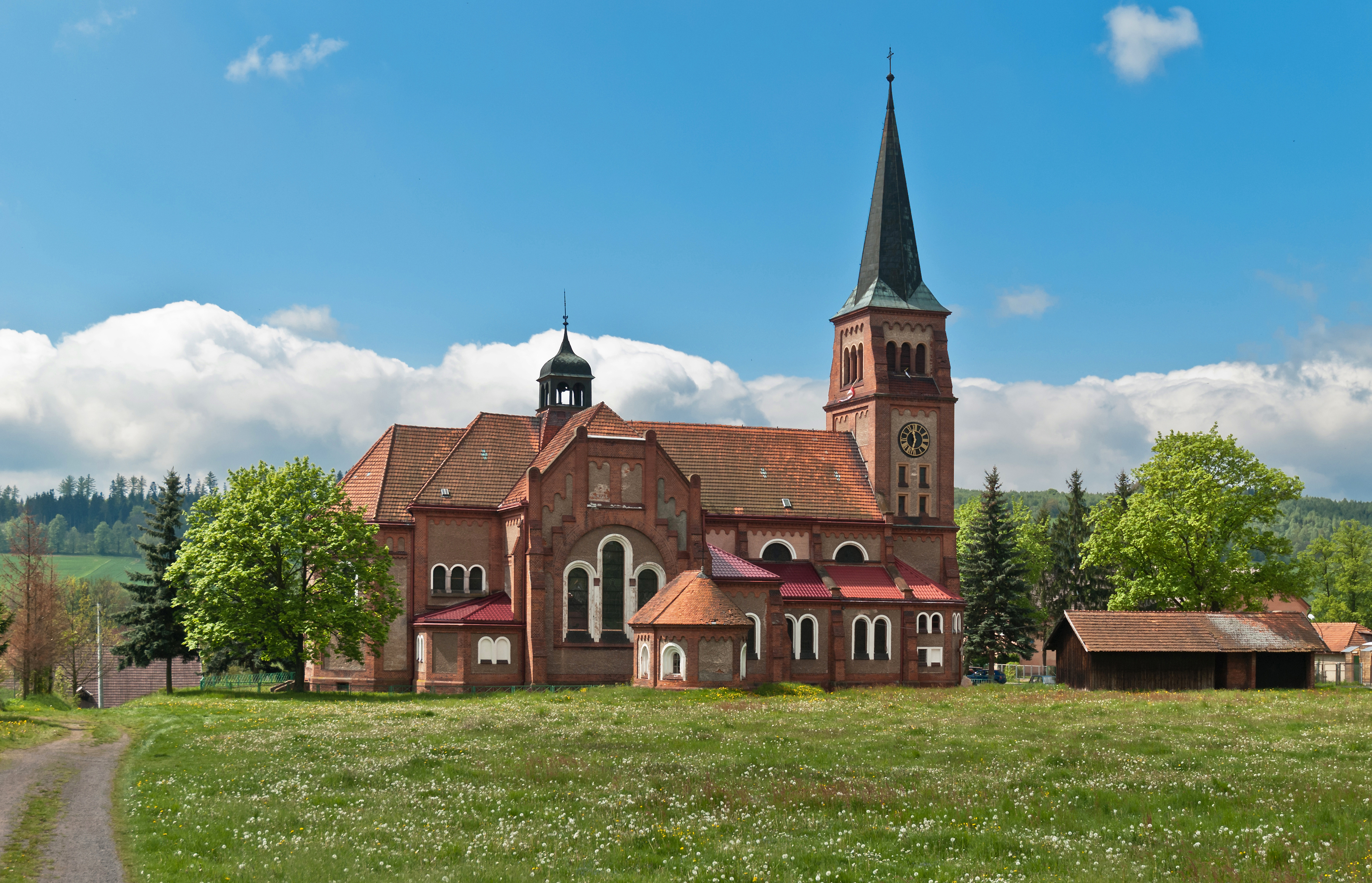 St. James the Apostle Church in Ścinawka Dolna